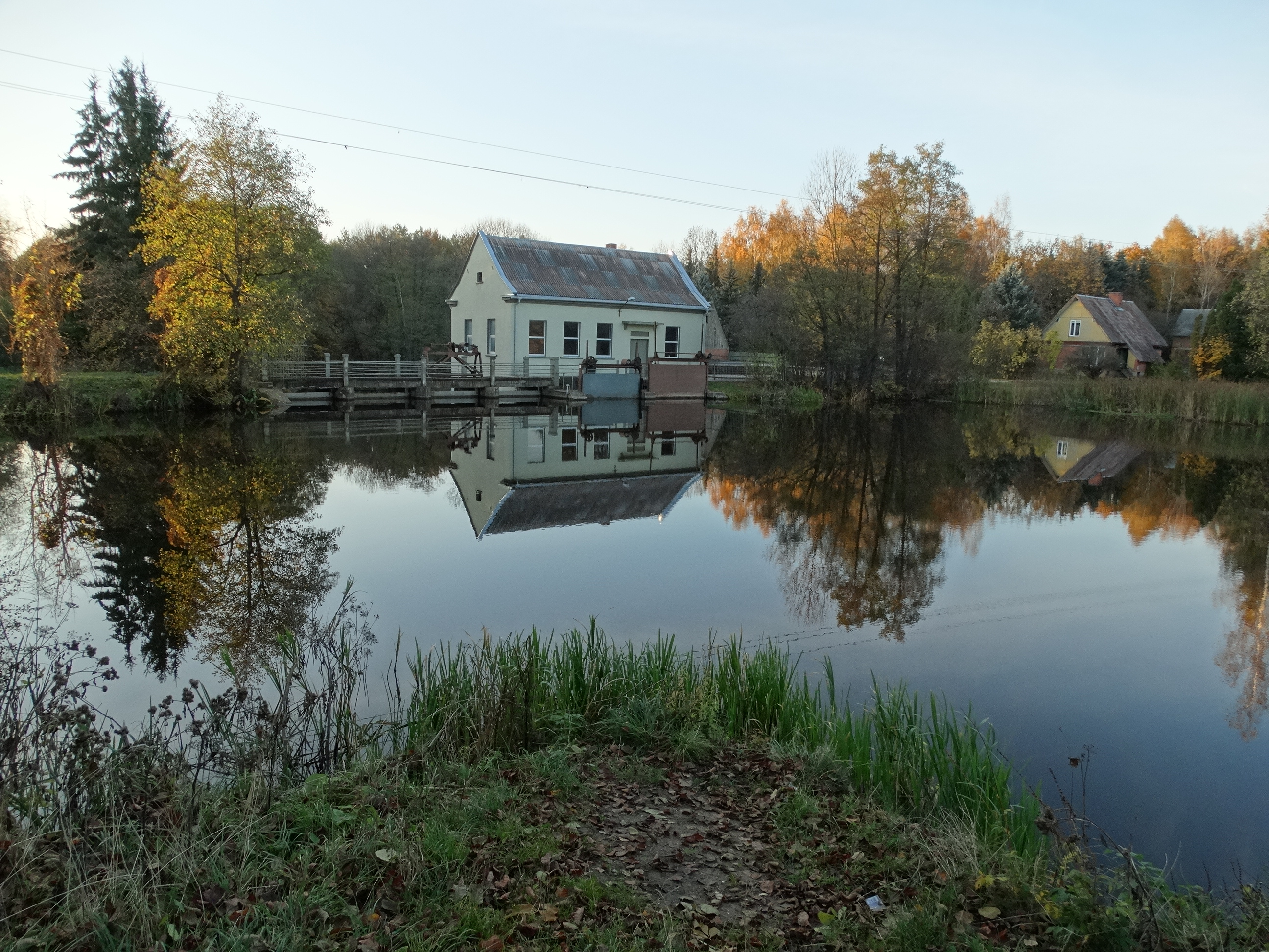 SHP power plant on Dovinė River reservoir, Netičkampis, Marijampolė municipality, Lithuania